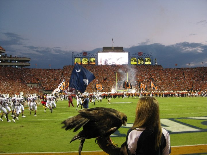 Nova before Auburn's game with South Carolina in 2010. "Nova", officially named "War Eagle VII", ready to fly untethered above Auburn's Jordan-Hare football stadium in one of the most unique displays in college football.